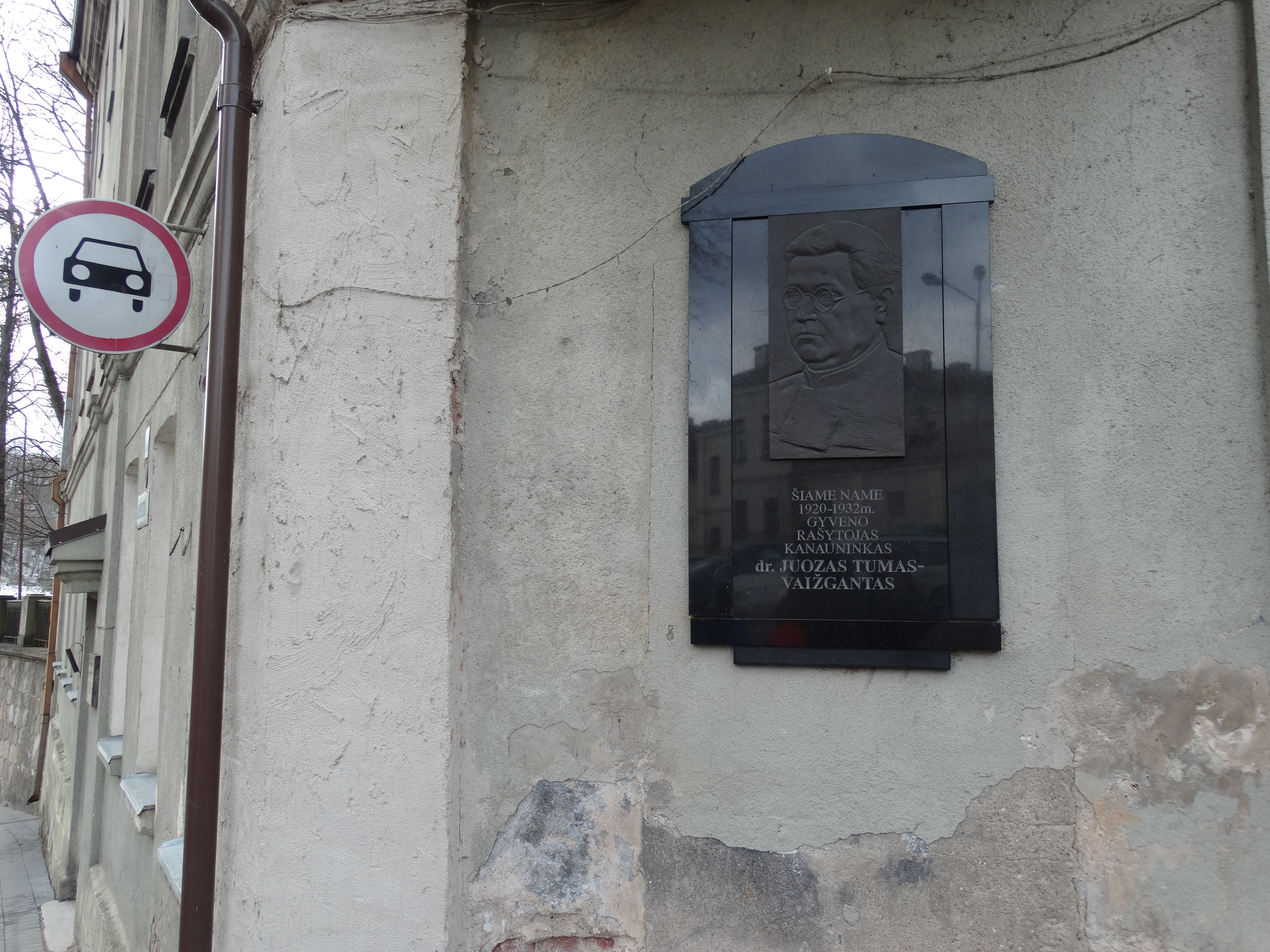 Memorial plaque to Vaižgantas, Aleksoto g. 10, Kaunas, Lithuania